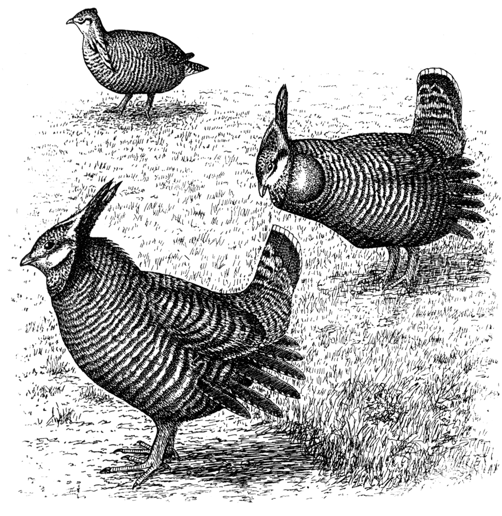 Heath Hen , Tympanuchus cupido cupido, woodcut. Males displaying in foreground, female in background.